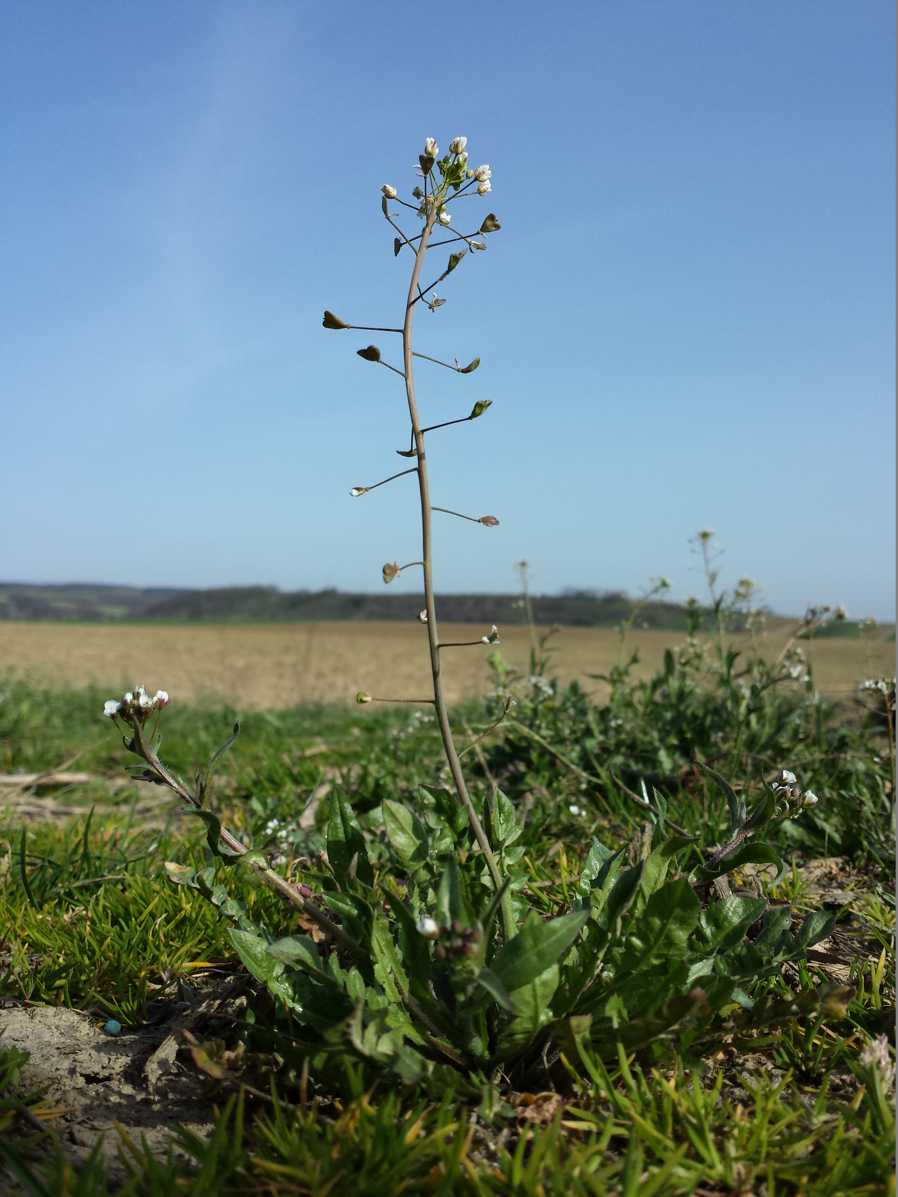 Habitus Taxonym: Capsella bursa-pastoris ss Fischer et al. EfÖLS 2008 ISBN 978-3-85474-187-9 Location: next to Münichsthal, district Mistelbach, Lower Austria - ca. 230 m a.s.l. Habitat: border of a wineyard